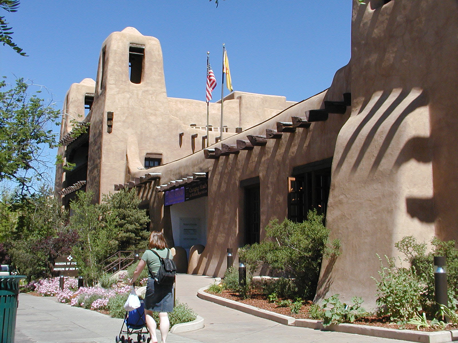 Santa Fe Fine Art Museum - with stroller.